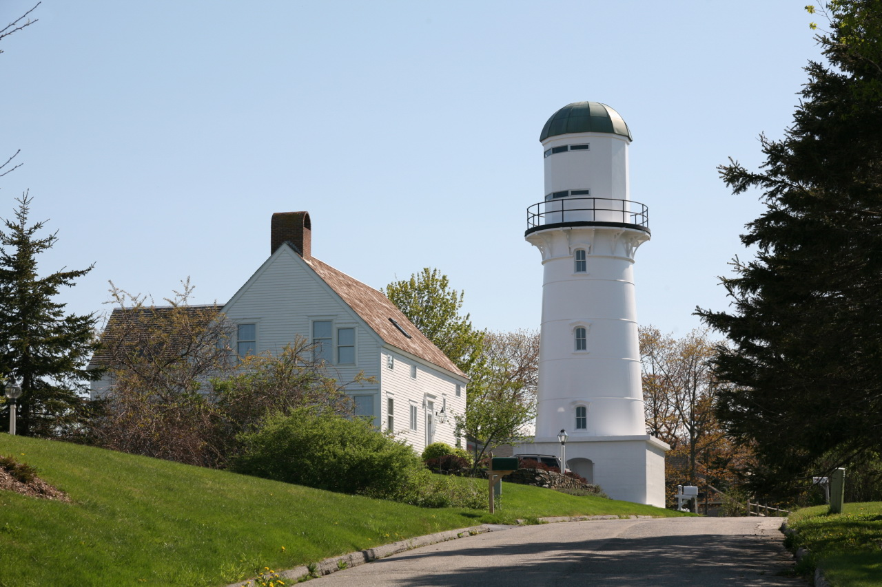 Cape Elizabeth Lights, Portland, Maine